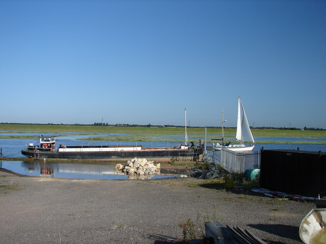 Barge and passing yacht View through the railings around the jetty to the River Welland not long after the turn of the tide.